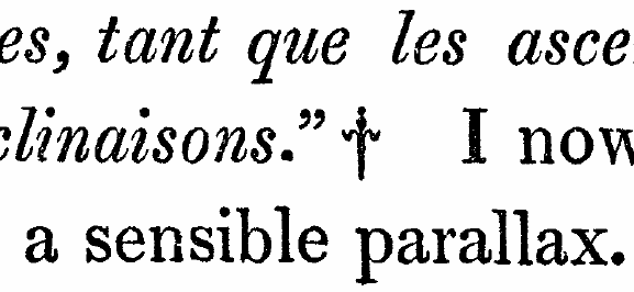 Dagger in a British print from 1839